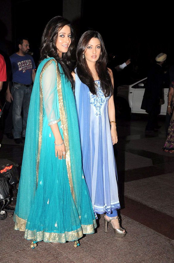 Raima Sen, Riya Sen